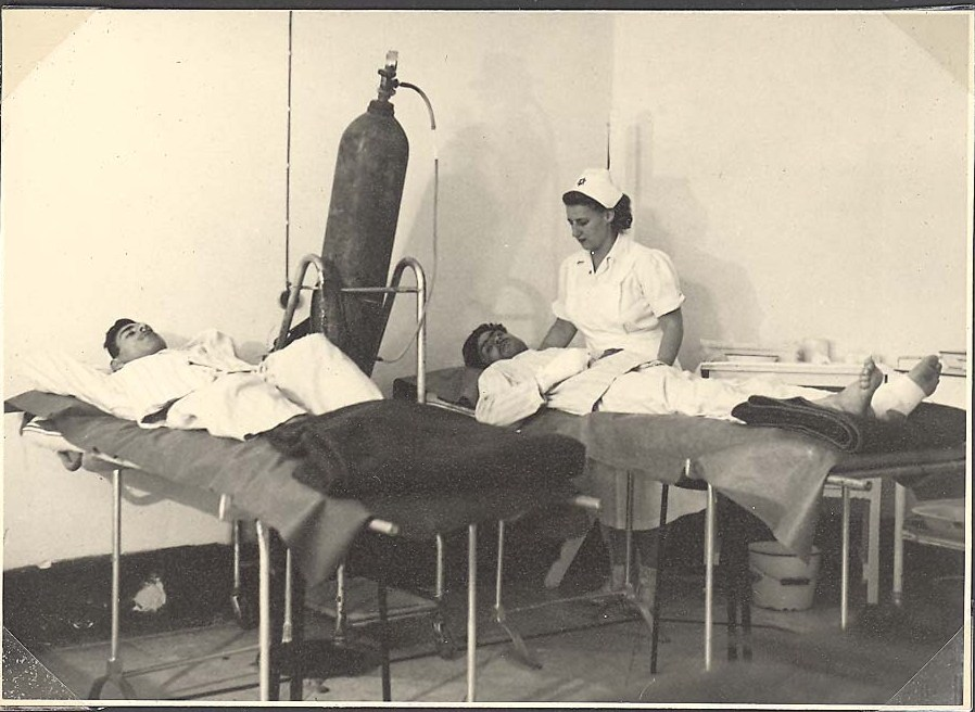 Military hospital 11 (1948) Ziv, Israel Defense Forces